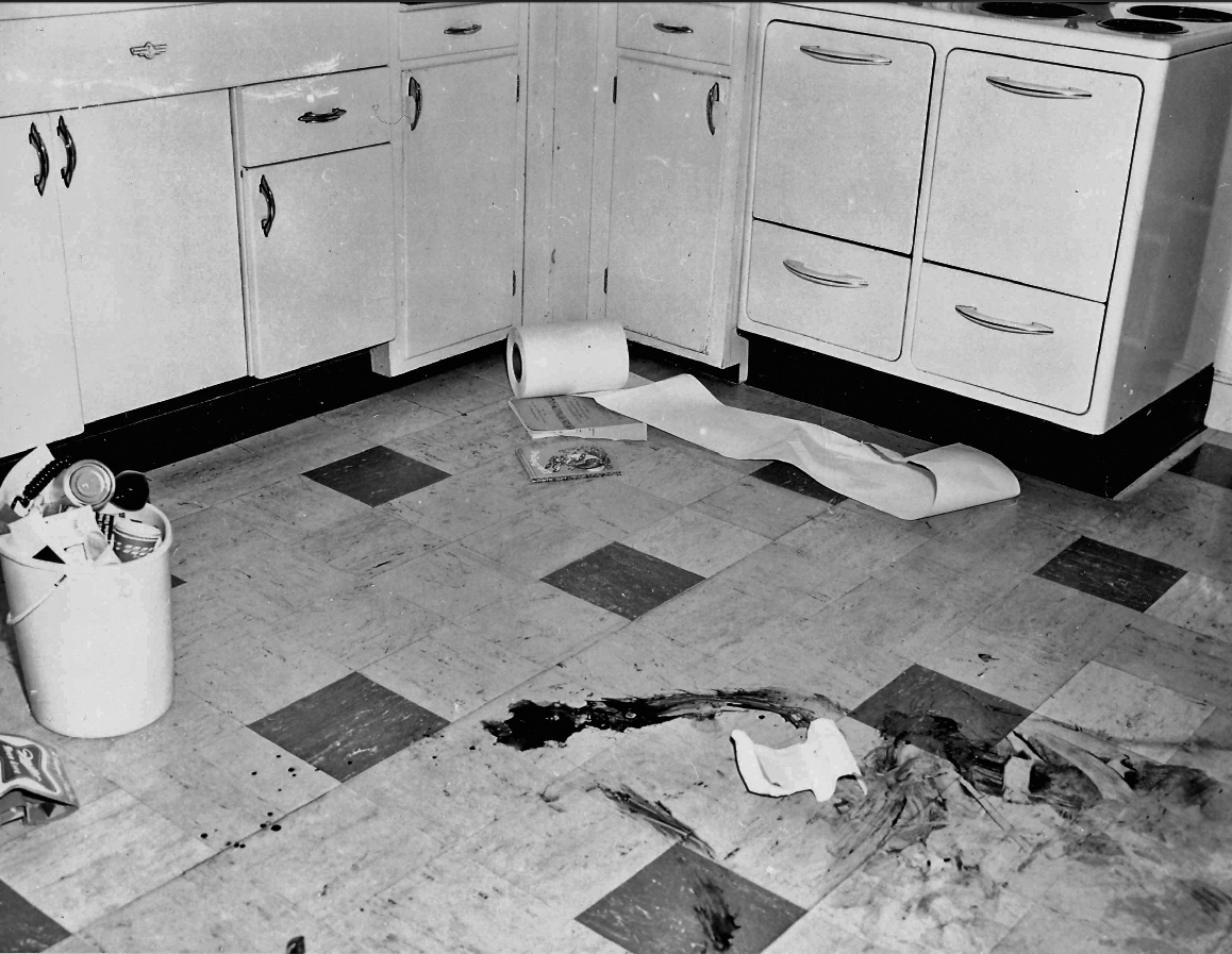 Kitchen at the Lincoln, MA, USA, home of Joan Risch, as photographed by local police on the night of her disappearance in 1961. Whether a crime actually occurred or the scene was staged has been a matter of debate ever since.